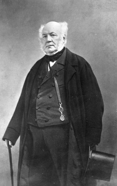 Photograph, Sir Allan MacNab, Montreal, QC, 1861, Silver salts on paper mounted on paper - Albumen process - 8 x 5 cm